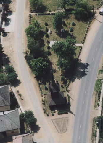 Gemzse, Hungary, aerialphotography This is a photo of a monument in Hungary, Identifier: 8240